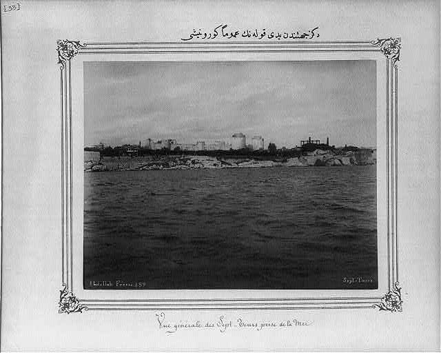 General view of Yedikule (Seven Towers) from the sea side between 1880 and 1893